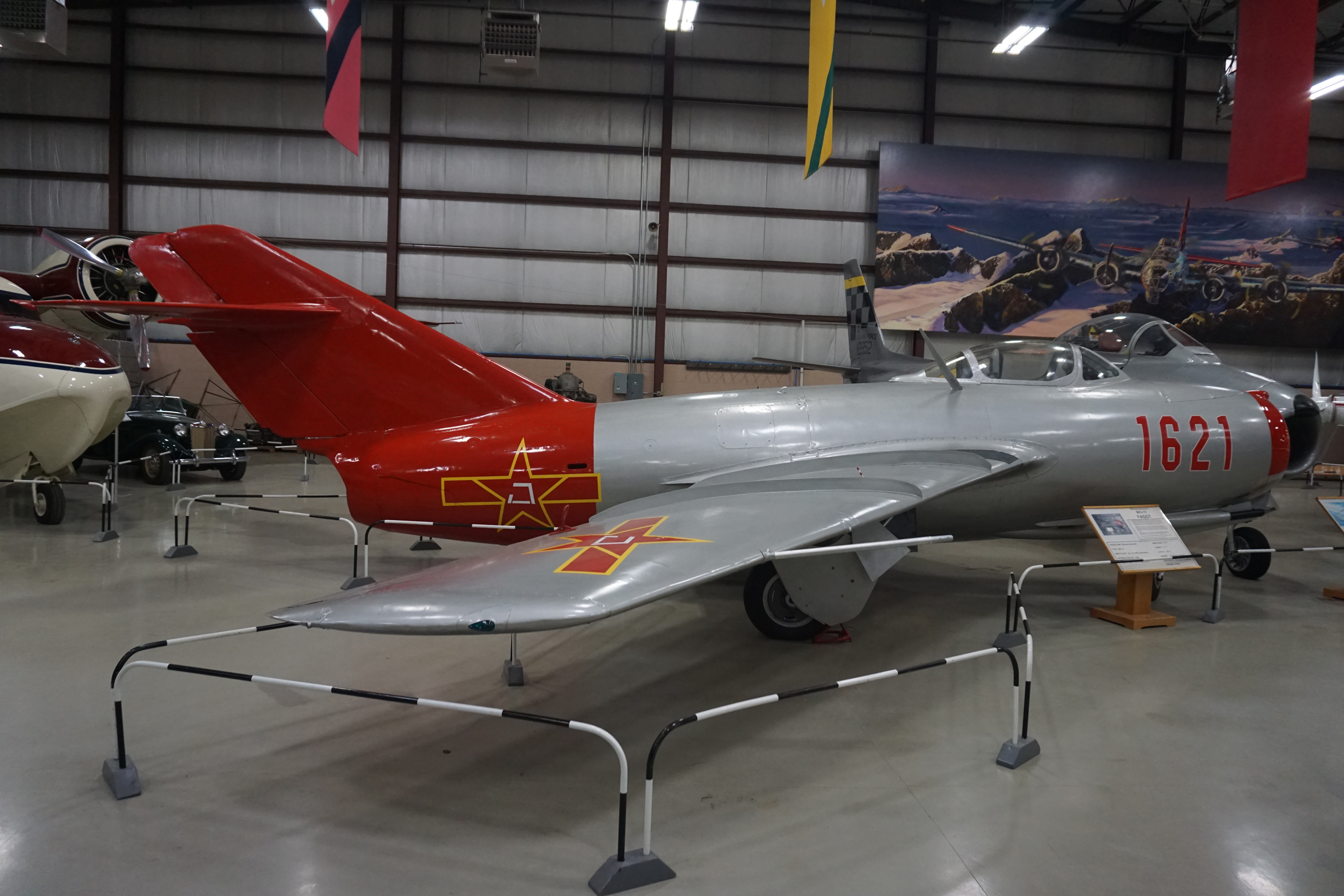 A Mikoyan-Gurevich MiG-15 on display at the Air Zoo at Kalamazoo/Battle Creek International Airport in Portage, Michigan (United States).